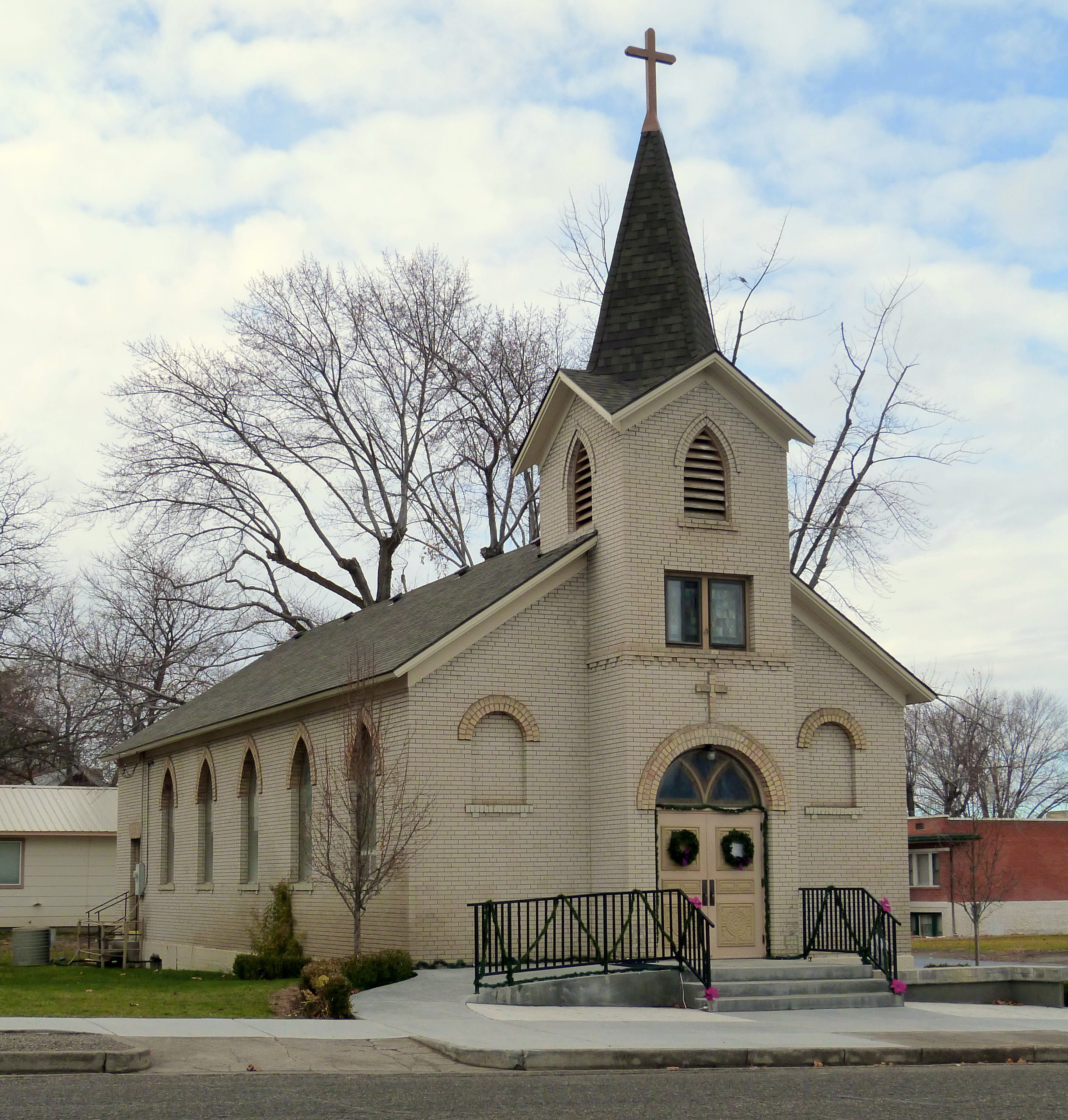 The historic Our Lady of Limerick Catholic Church (built 1915), located at 113 West Arthur Street in Glenns Ferry, Idaho, United States, is listed on the US National Register of Historic Places.